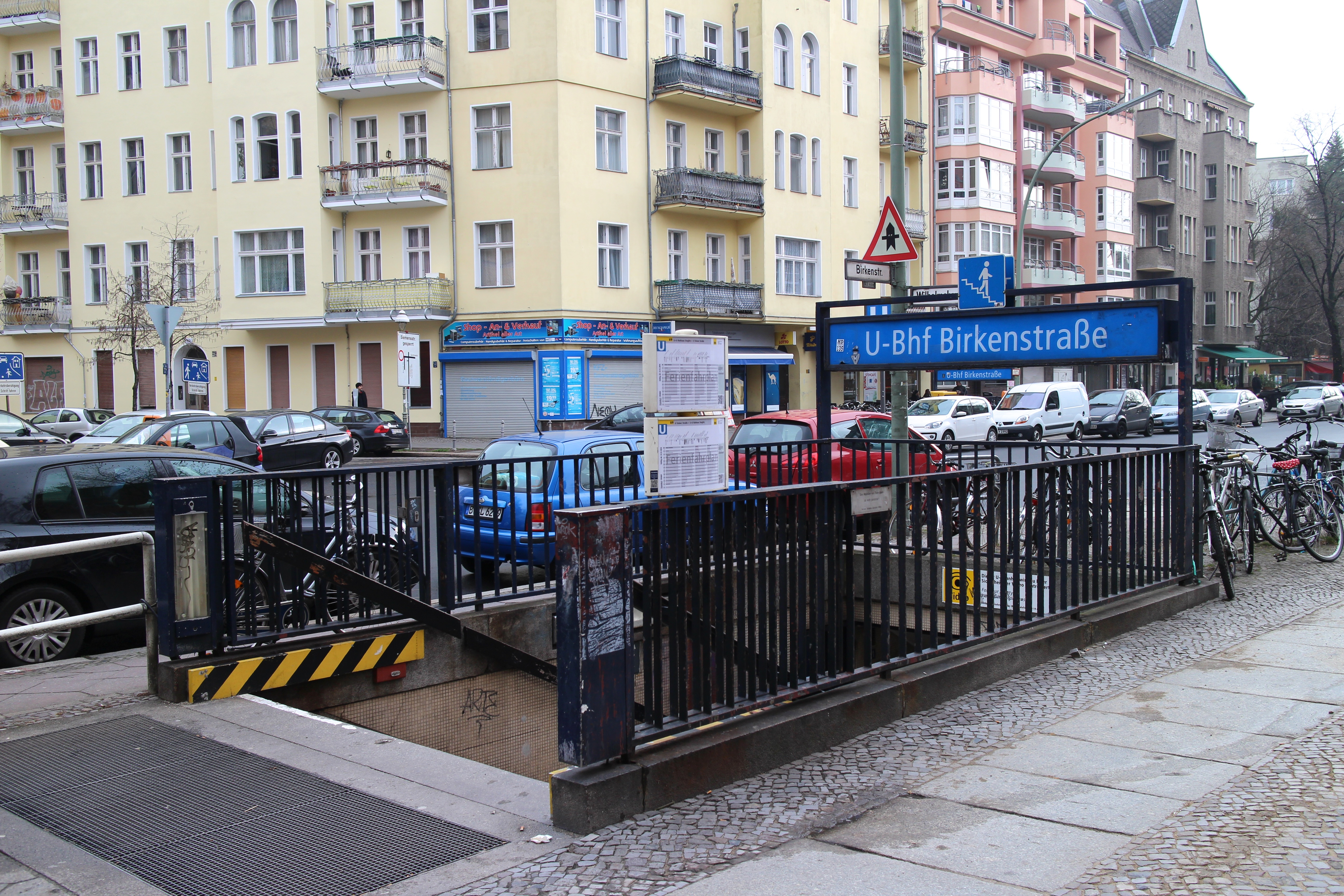 Entrance to the U-Bahn station Birkenstraße on the U9 line in Berlin, Germany.